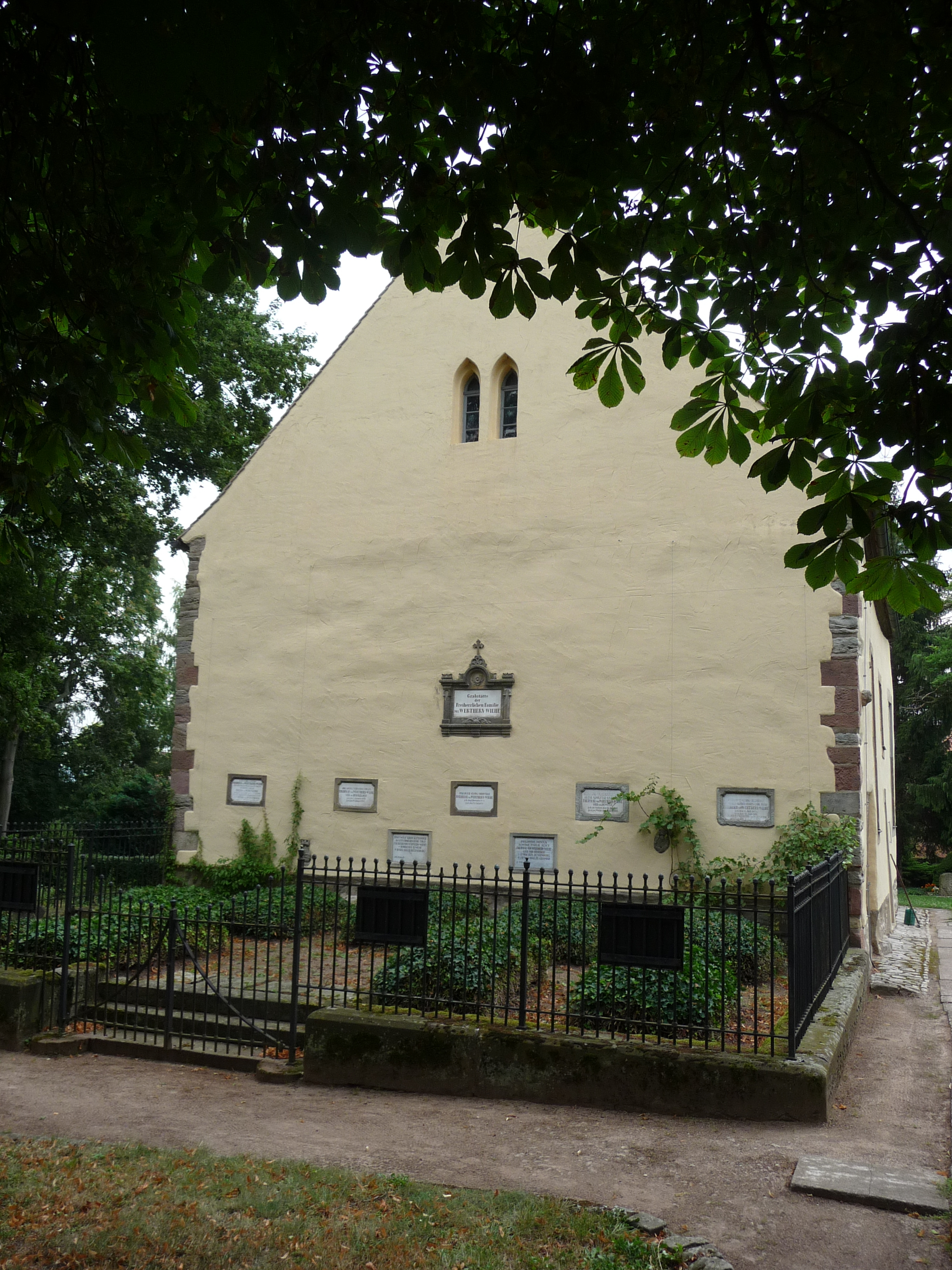 Graves of family von Werthern in Wiehe in Thuringia